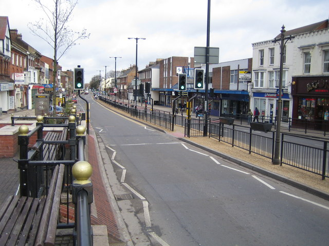 Dunstable: The A5 High Street (North) Viewed looking north westwards up the former Watling Street.